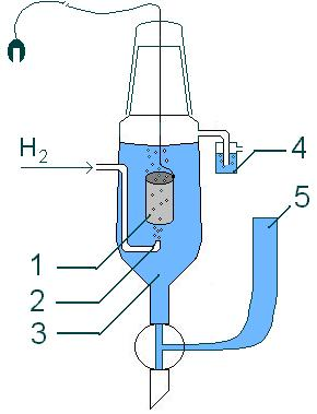 Standard hydrogen electrode scheme: platinized platinum electrode hydrogen gas acid solution with an activity of H+=1 mol/l hydroseal for prevention of oxygen inteference reservoir via which the second half-element of the galvanic cell should be attached